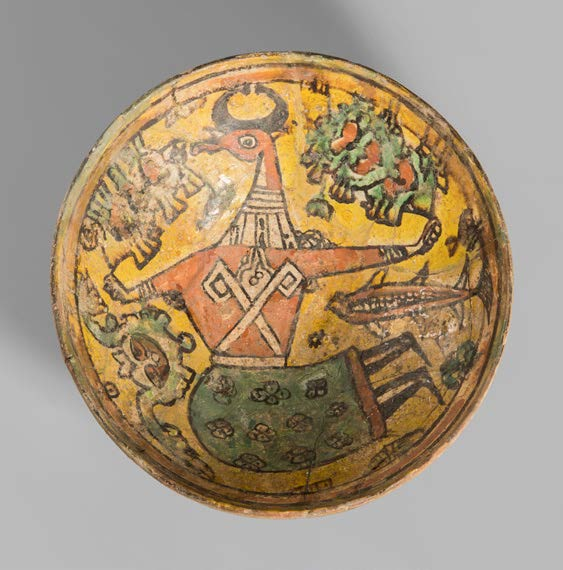 Ceramic bowl decorated with slip beneath a transparent glaze and designed by anthropic figure with bull head Golestan, Gorgan 9th century CE, Early Islamic period